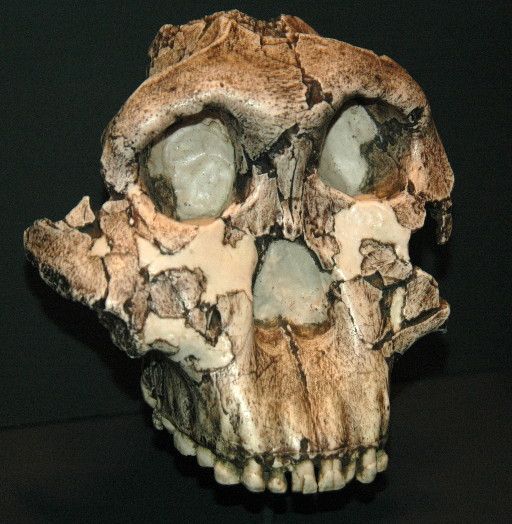 Paranthropus boisei (Leakey, 1959) fossil hominid from the Pleistocene of Tanzania (replica of OH 5 (National Museum of Tanzania, Dar es Salaam, Tanzania) on public display at the Field Museum of Natural History, Chicago, Illinois, USA).